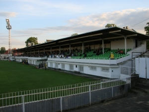 tatran stadium